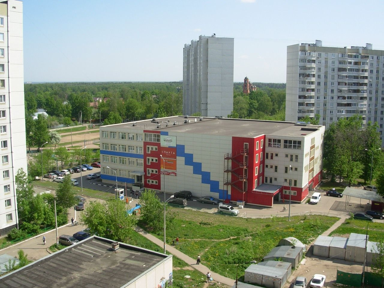 street